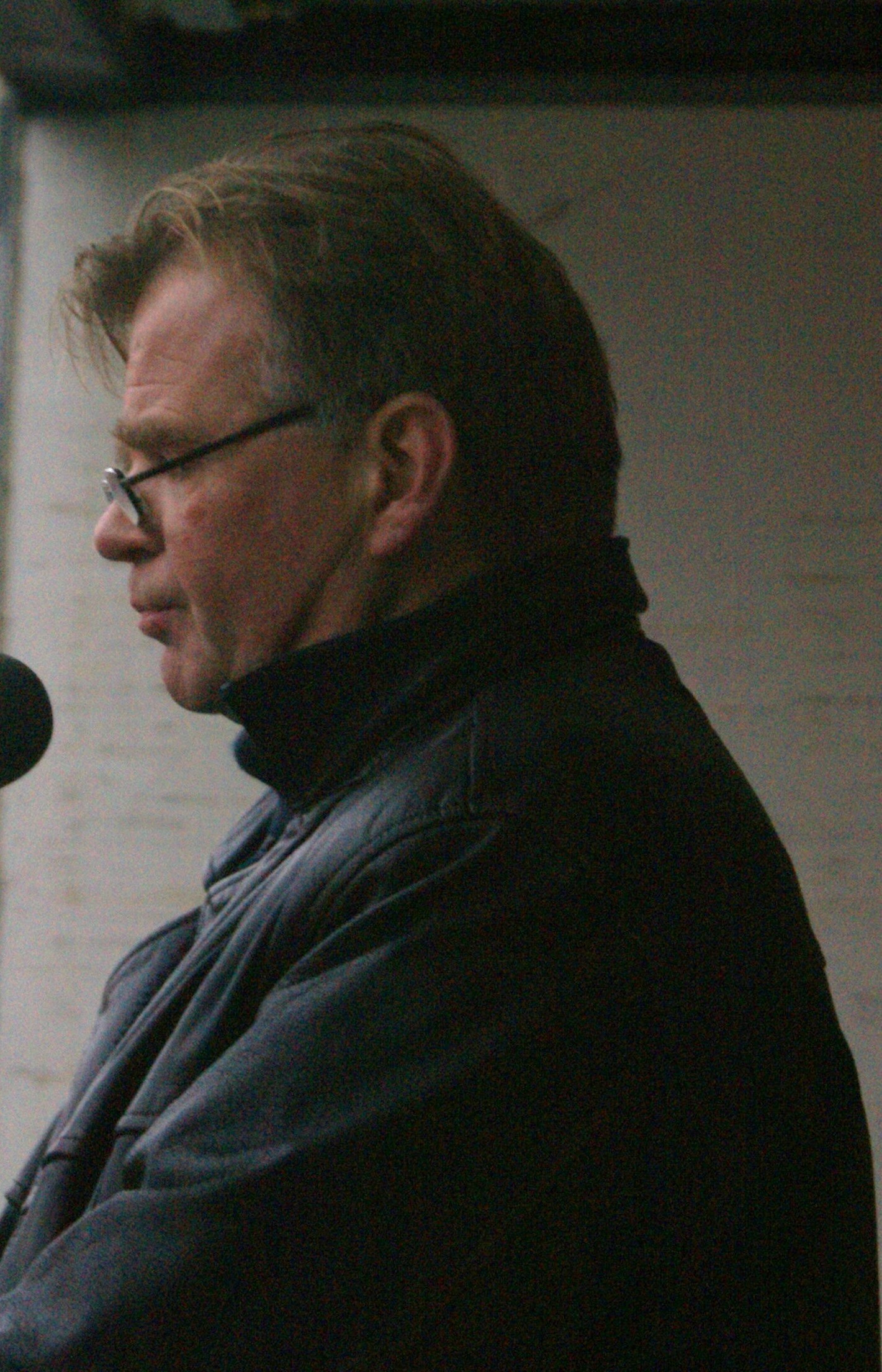 Week 13. Einnar Már Gudmundsson writer speaking at Austurvöllur. The Kitchenware-Revolution in Iceland was organize by Hördur Torfason and "Raddir Fólksins". It started in the wake of the collapse of the banking system followed be the decimation of Icelandic economy in the beginning of October 2008. It resulted in the resignation of Geir H. Haarde and his cabinet on January 26. 2009. The protest meetings were held every Saturday at the Austurvöllur square in front of Alþingishús - the Icelandic parliament house. The first meeting (week 1) was dated Saturday 11. October 2008. The 16th meeting dated January 24. 2009